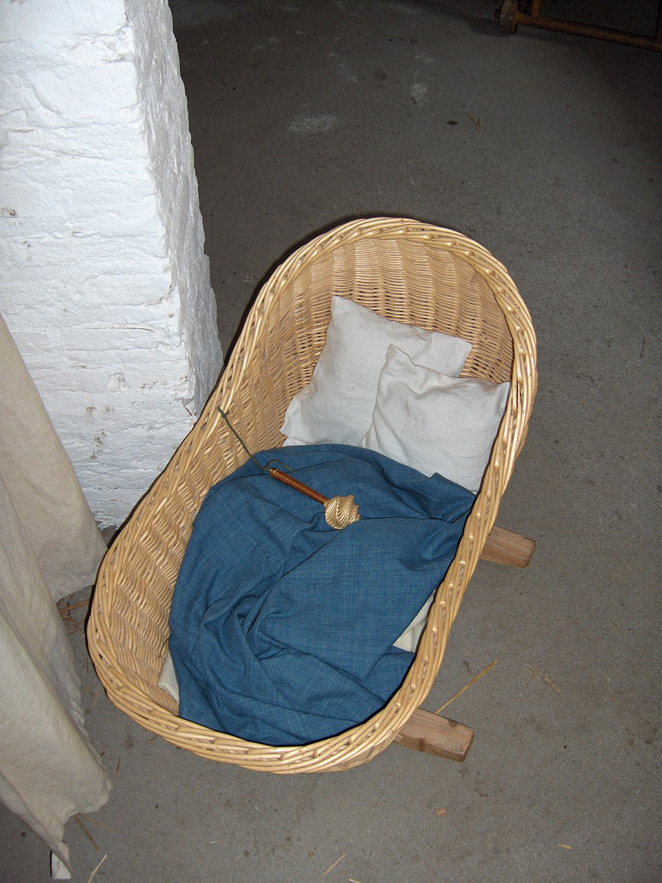 cot and rattle, c. 1465; at the archeological site of Walraversijde, near Oostende, Belgium